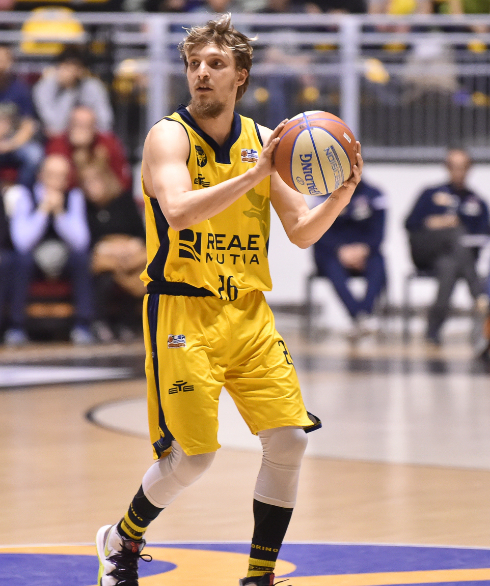 foto © Marco Magosso